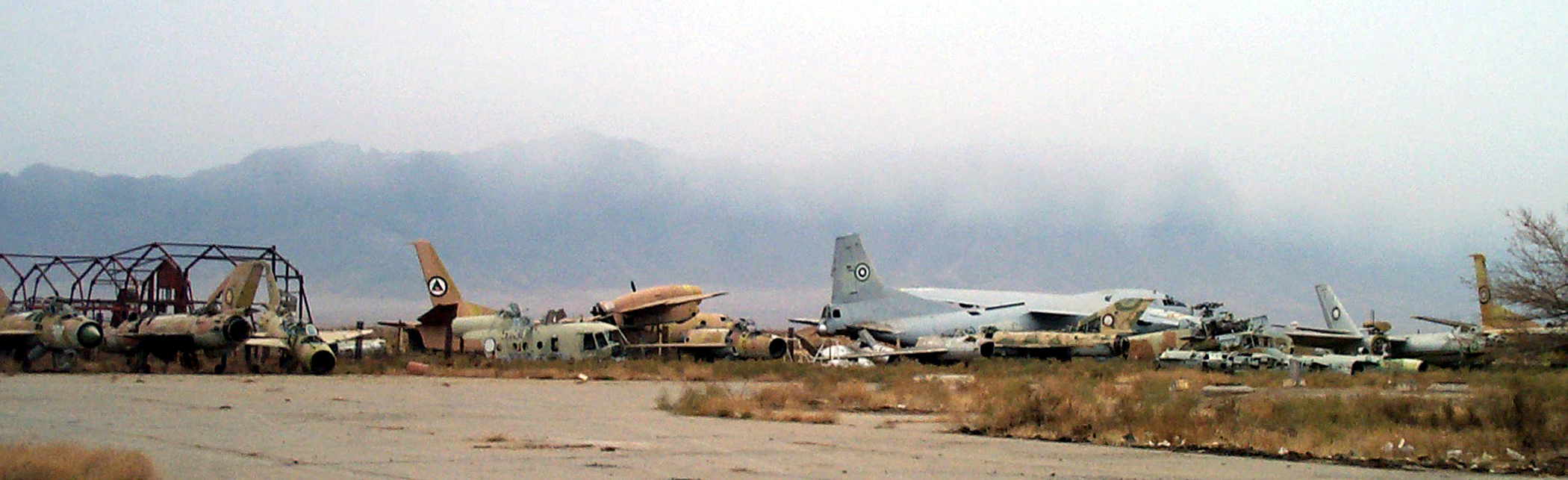 Aircraft Petting Zoo early 2002 - wrecks of former Soviet aircraft line the runway at Bagram Airbase